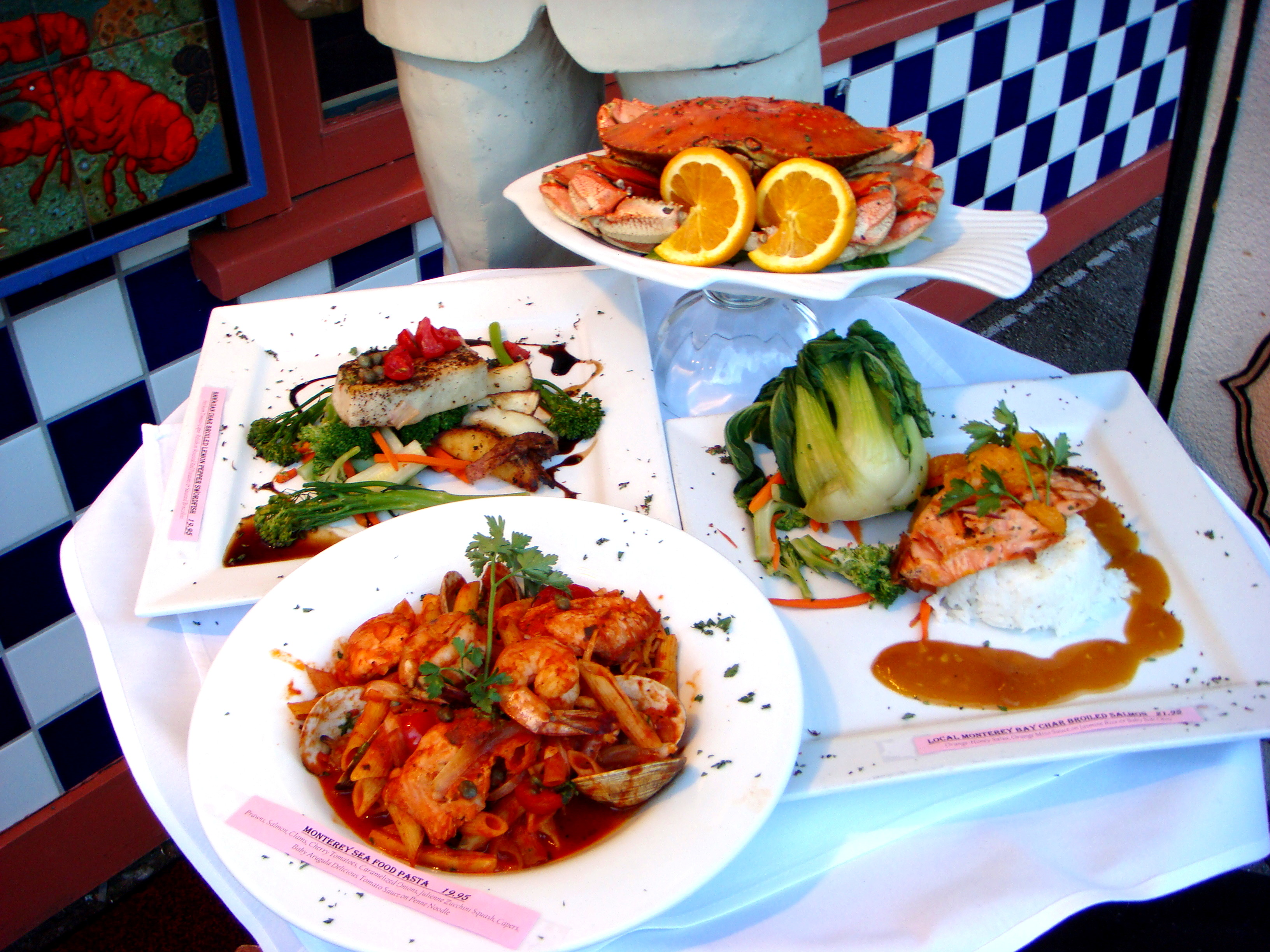 Sample of seafood offered at Monterey's Old Fisherman's Wharf